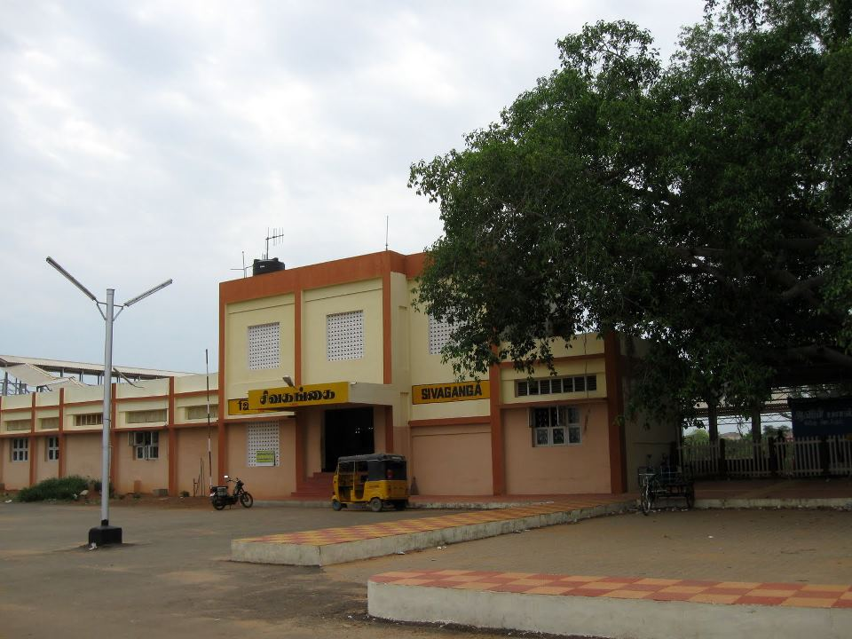 Sivagangai Station